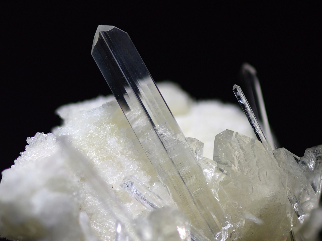 Pectolite (crystal size: 20 mm tall) Locality: Poudrette quarry (Demix quarry; Uni-Mix quarry; Desourdy quarry), Mont Saint-Hilaire, Rouville RCM, Montérégie, Québec, Canada